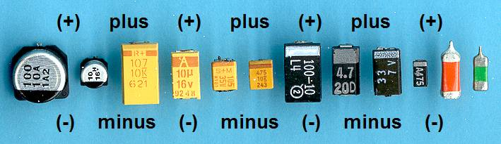 SMD Electrolytic Capacitors (aluminium & tantalum) with polarity indication.